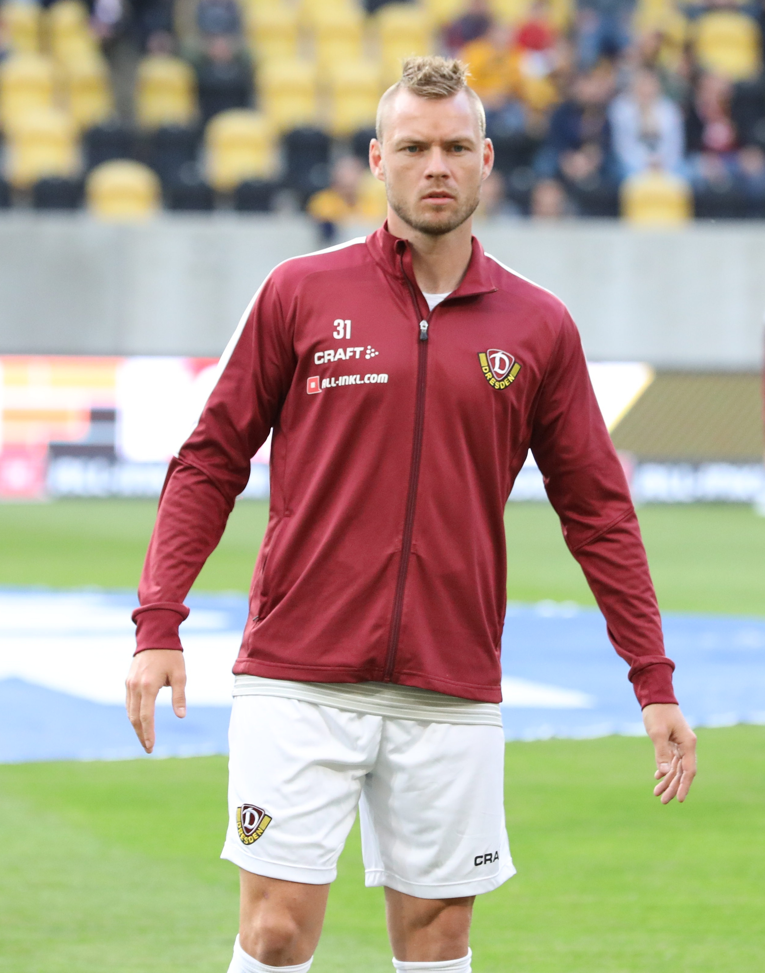 Test game, 17th July 2019: SG Dynamo Dresden vs. Paris Saint-Germain 1:6 (0:3)